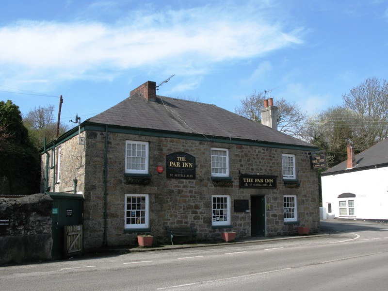 The Par Inn in Par, Cornwall, United Kingdom. It is situated in the older part of the village, on the road from St Blazey (right) to Par harbour (left.